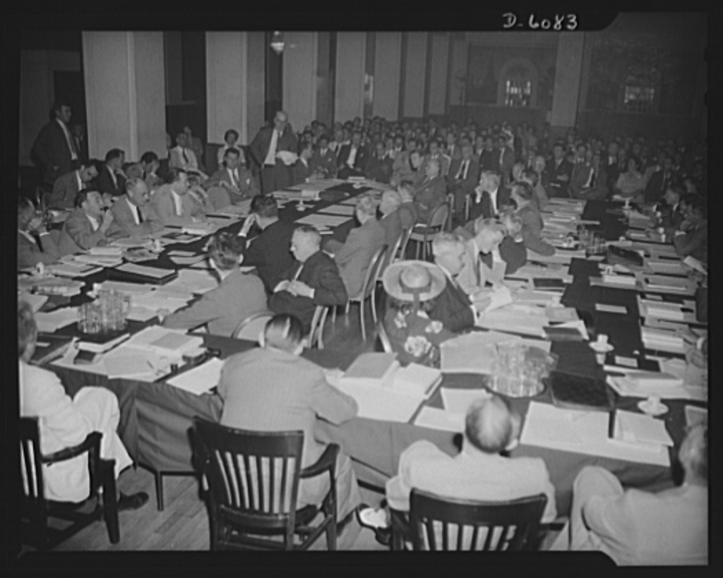 War Labor Board: "Little Steel" hearing. Philip Murray, Congress of Industrial Organization leader, speaking at the "Little Steel" hearing held by the War Labor Board, at the Hotel Washington in Washington, D.C., July 1. The hearing arose from a wage dispute between union demands and four "Little Steel" companies: Bethlehem Steel, Republic Steel, Youngstown Sheet and Tube, and Inland Steel. The hearing resulted in a fifteen per cent wage increase formula, and set a precedent for future wage adjustments to meet recent increases in the cost of living.